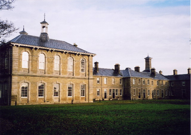 St Nicholas Hospital Sections of this 19th Century mental hospital have been converted into elegant apartments.